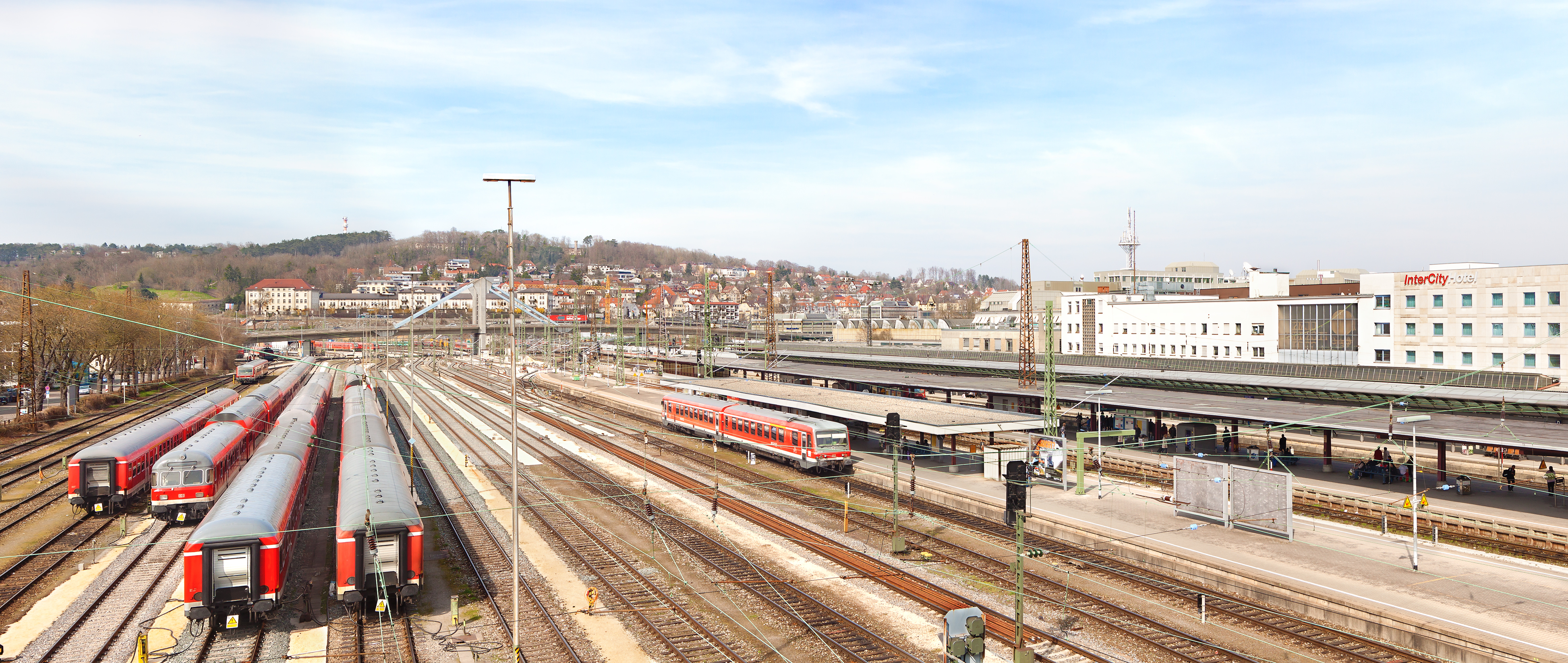 Railway construction of the main station in Ulm.